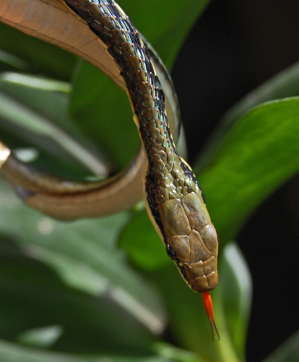 Dendrelaphis pictus, from Bogor, West Java, Indonesia